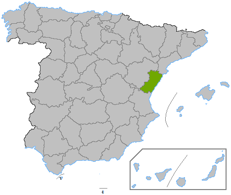 Location of the province of Castellón, in Spain. Basado en: ProvPont.jpg Source: Designed by Satesclop. Original picture, designed by Sobreira.